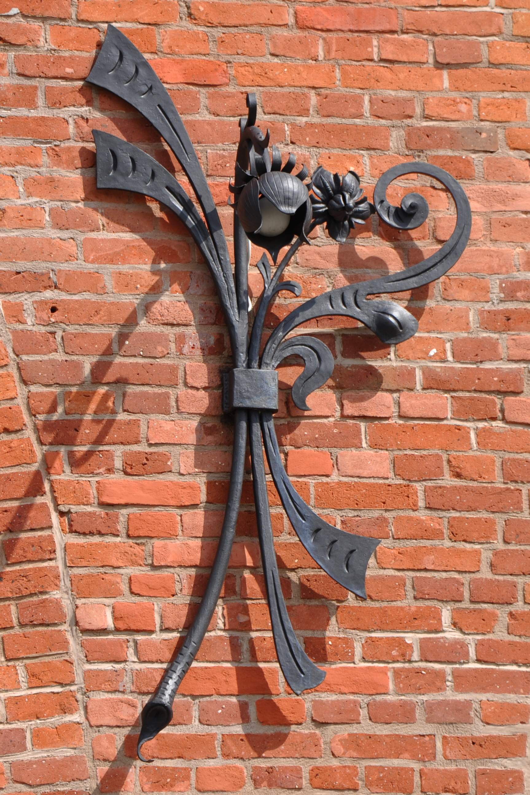 A lamp on the Grohman's Factory Gate in Łódź